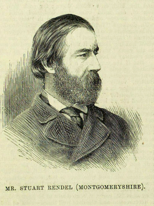 Stuart Rendel in 1880